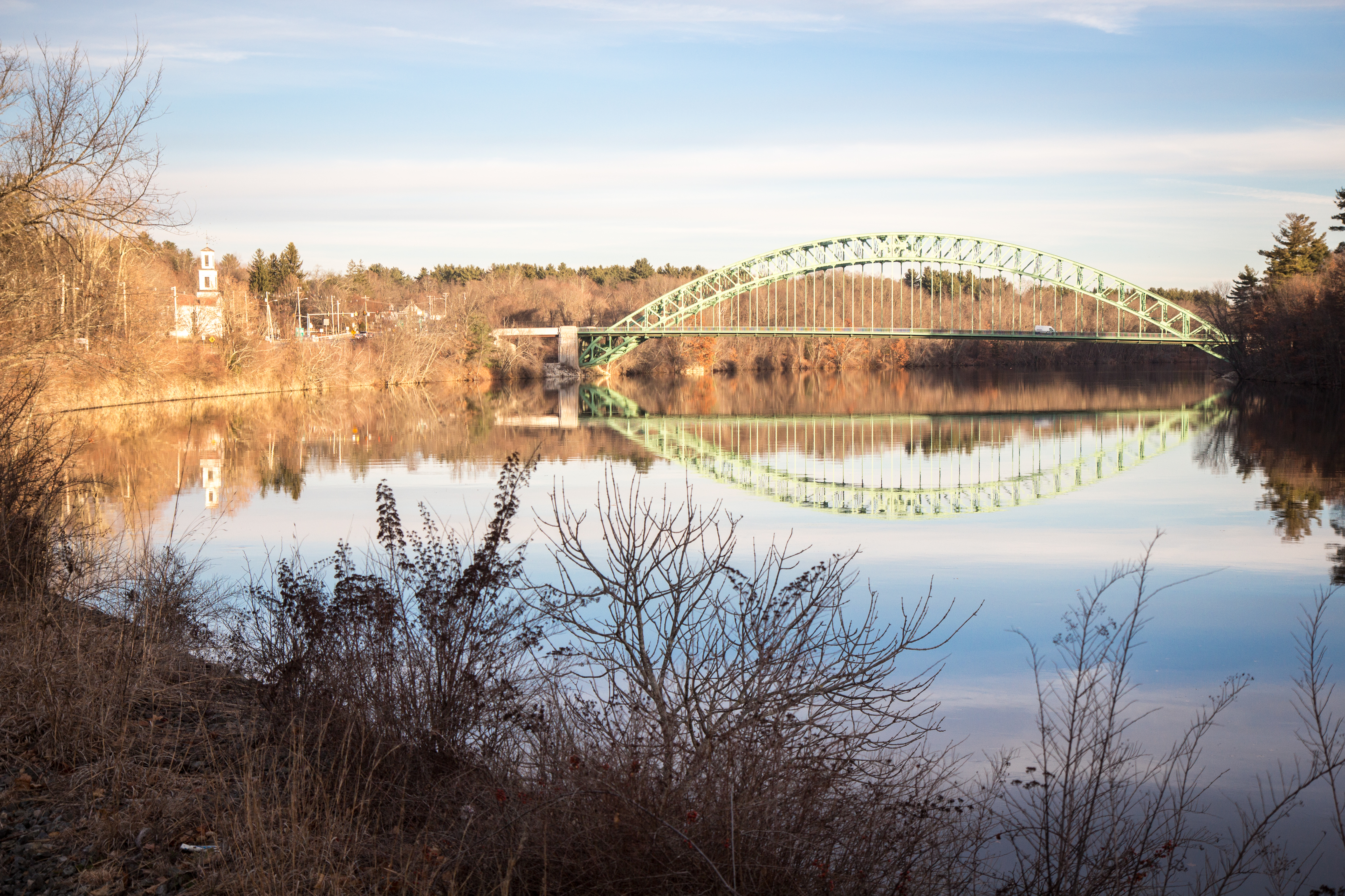 Photo of the Tyngsborough Bridge, a steel tied-arch bridge located in Tyngsborough, Massachusetts, which carries Route 113 over the Merrimack River.